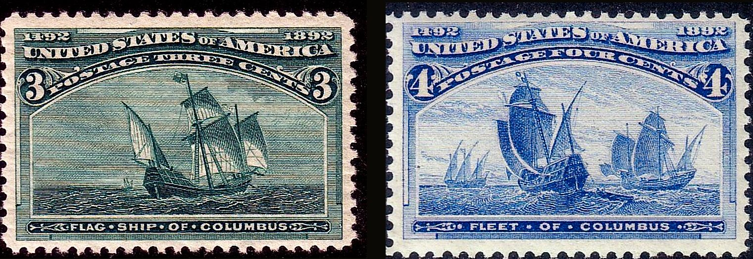 US Postage stamps: Columbian issues of 1893, 3c and 4c